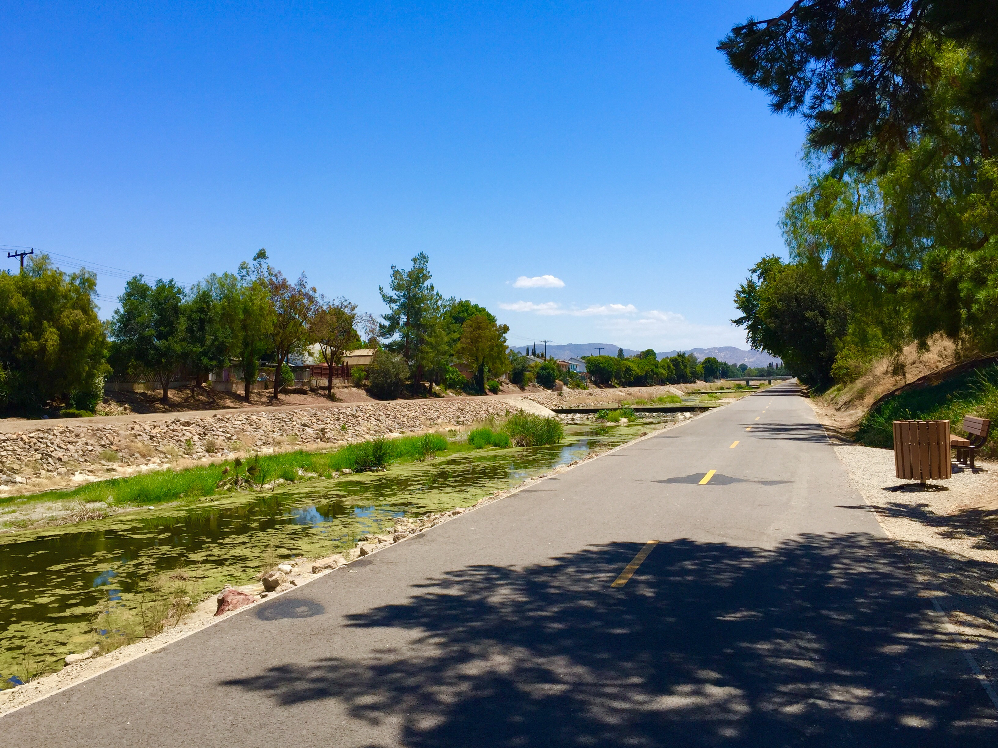 Arroyo Simi and the Arroyo Simi Bike Path as seen from Frontier Park in Simi Valley.